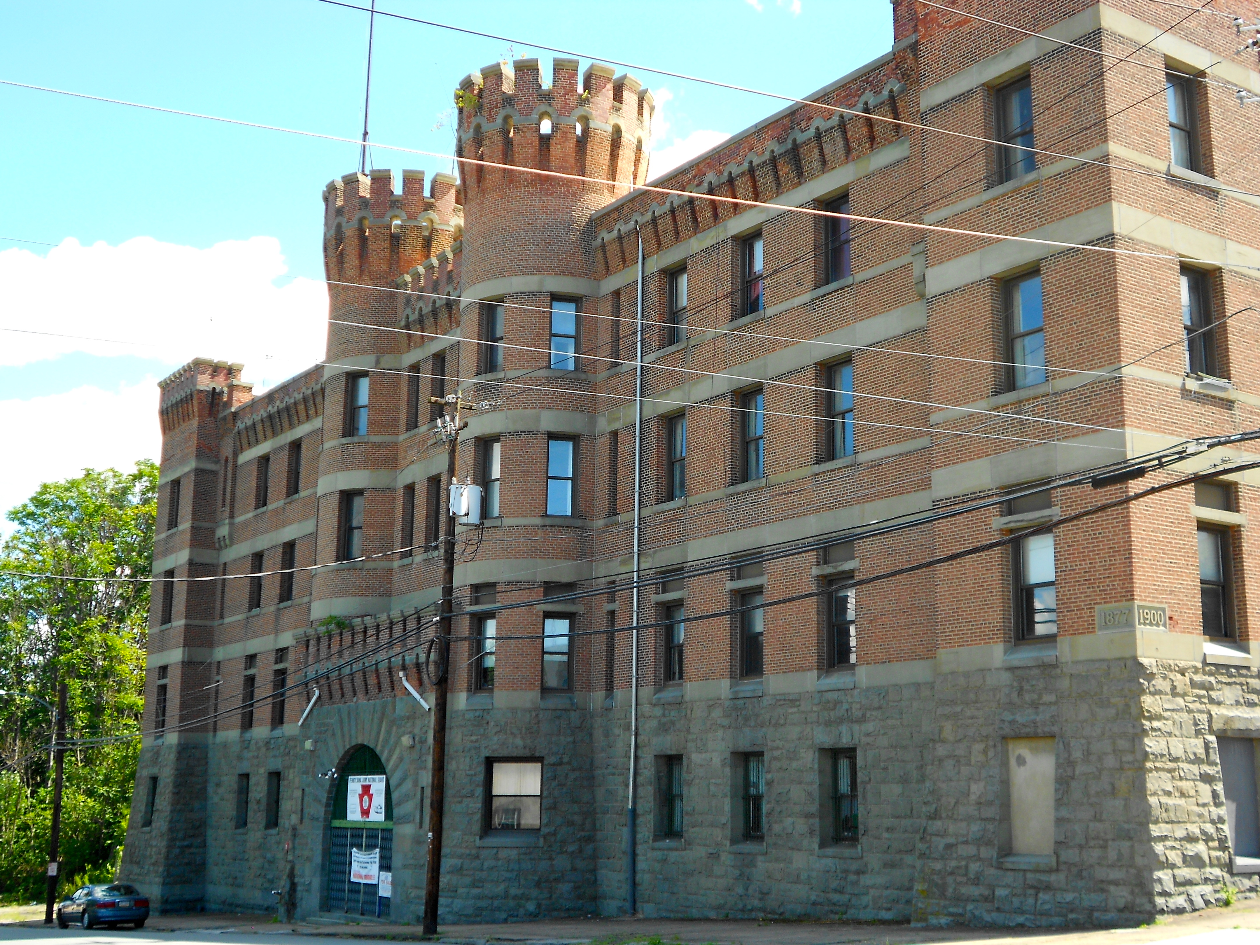 Scranton Armory, listed on the NRHP on December 22, 1989, at 900 Adams Avenue, Scranton, Lackawanna Caounty, Pennsylvania